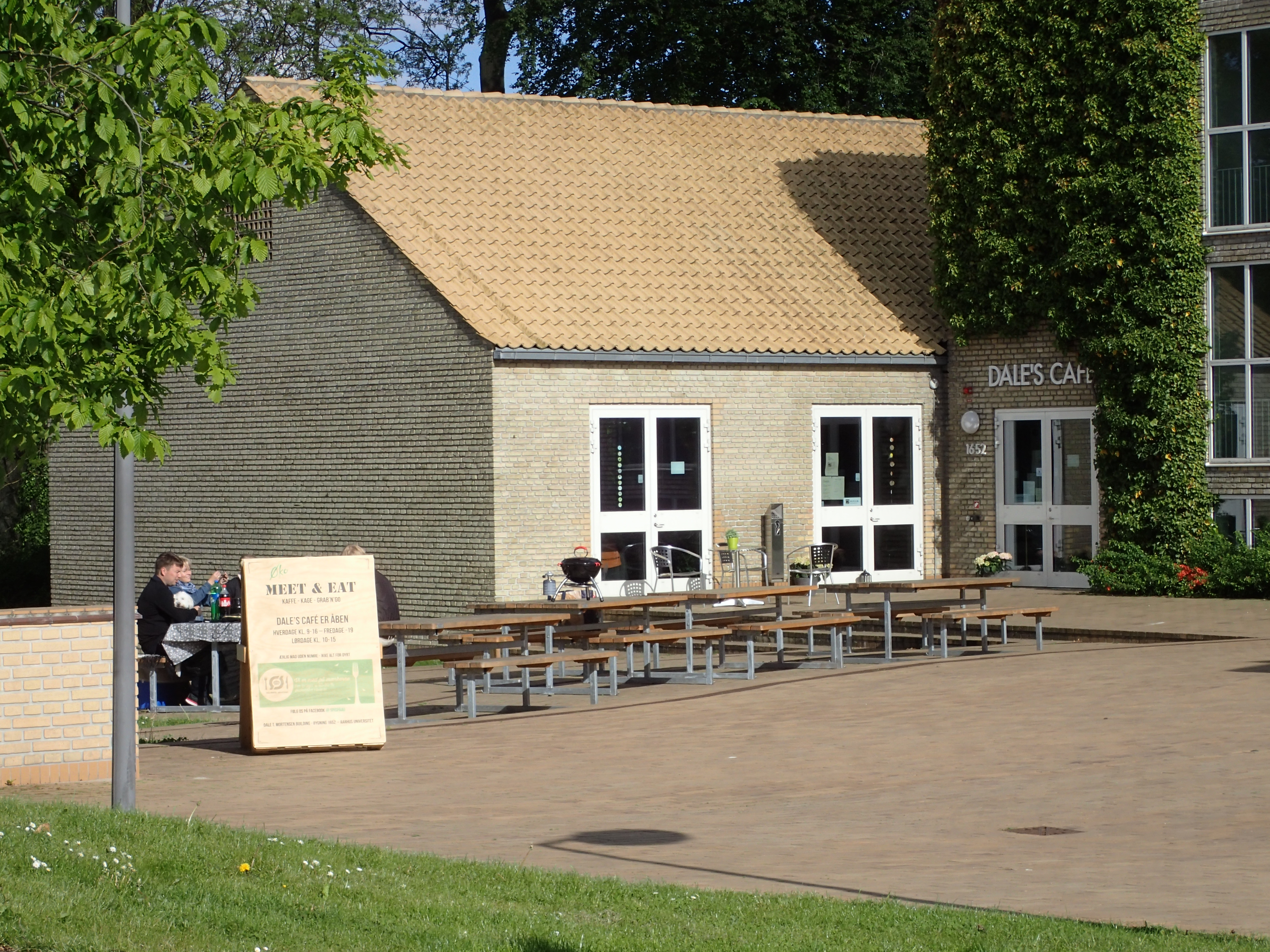 Dale's Café, Aarhus Universitet.